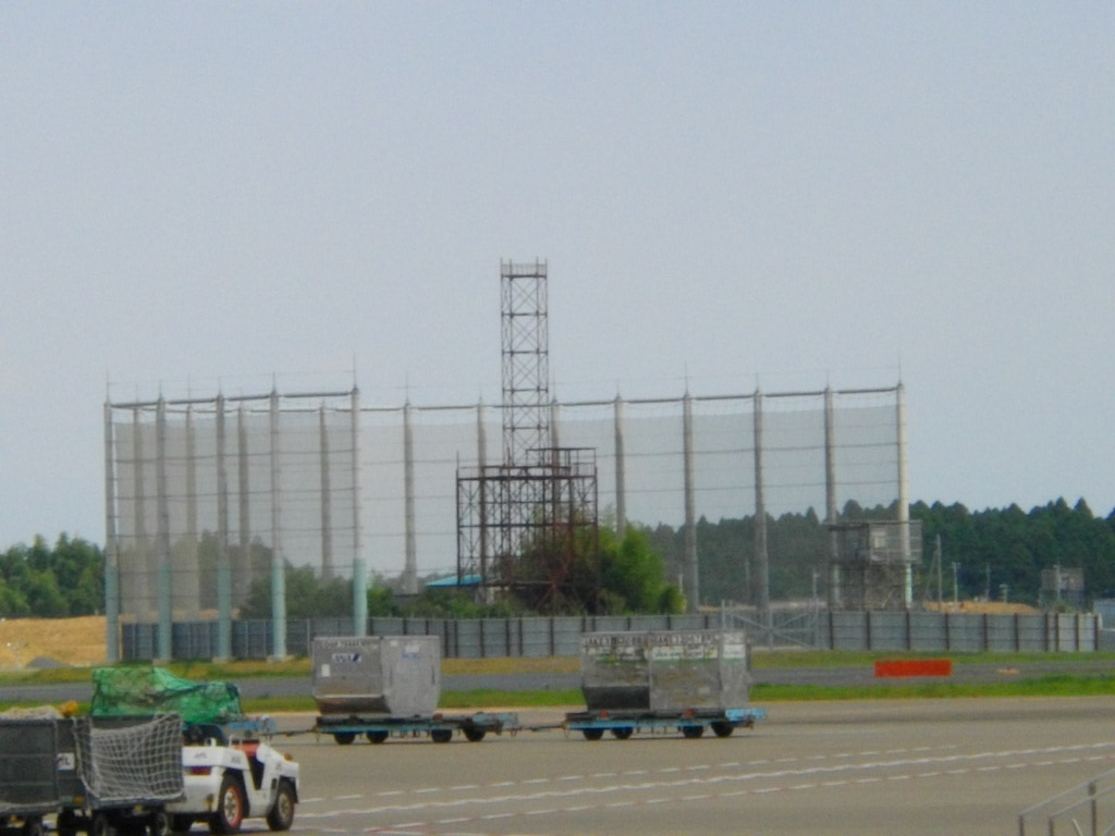 Yokobori Danketsu-Goya(literally "Yokobori Unity Hut")